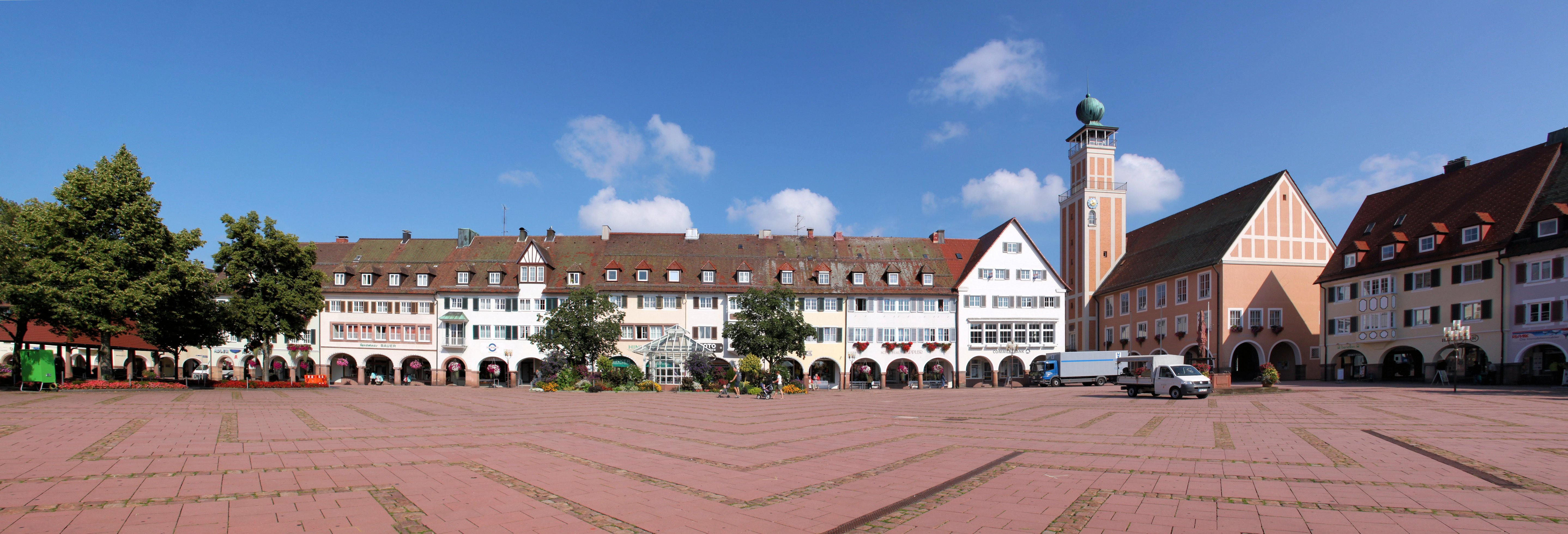 Freudenstadt: North side of the market place with the town hall (right).